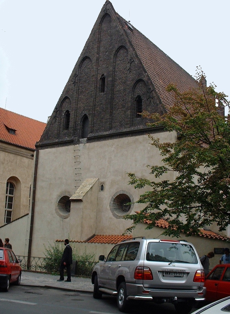 The Old-New Synagogue (Alt-neu Schul) in Prague. Shown from the rear. I took this picture on August 1, 2002. --agr 04:38, 14 Apr 2005 (UTC)